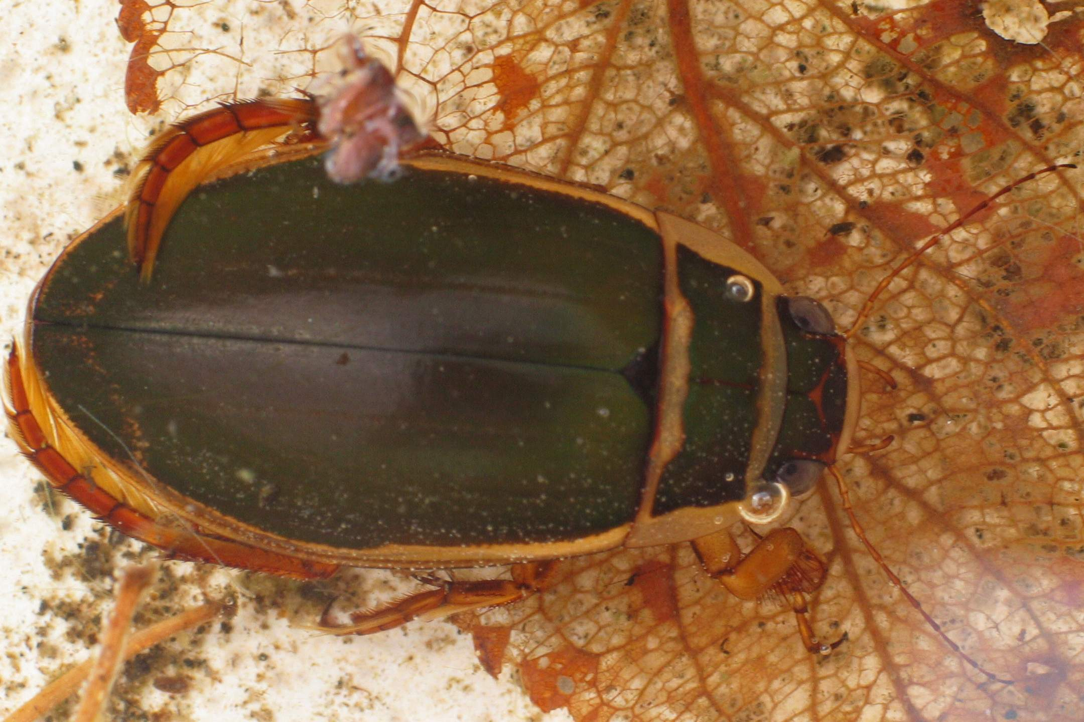 A Dytiscus marginalis (also known as Great Diving Beetle) on a leaf.